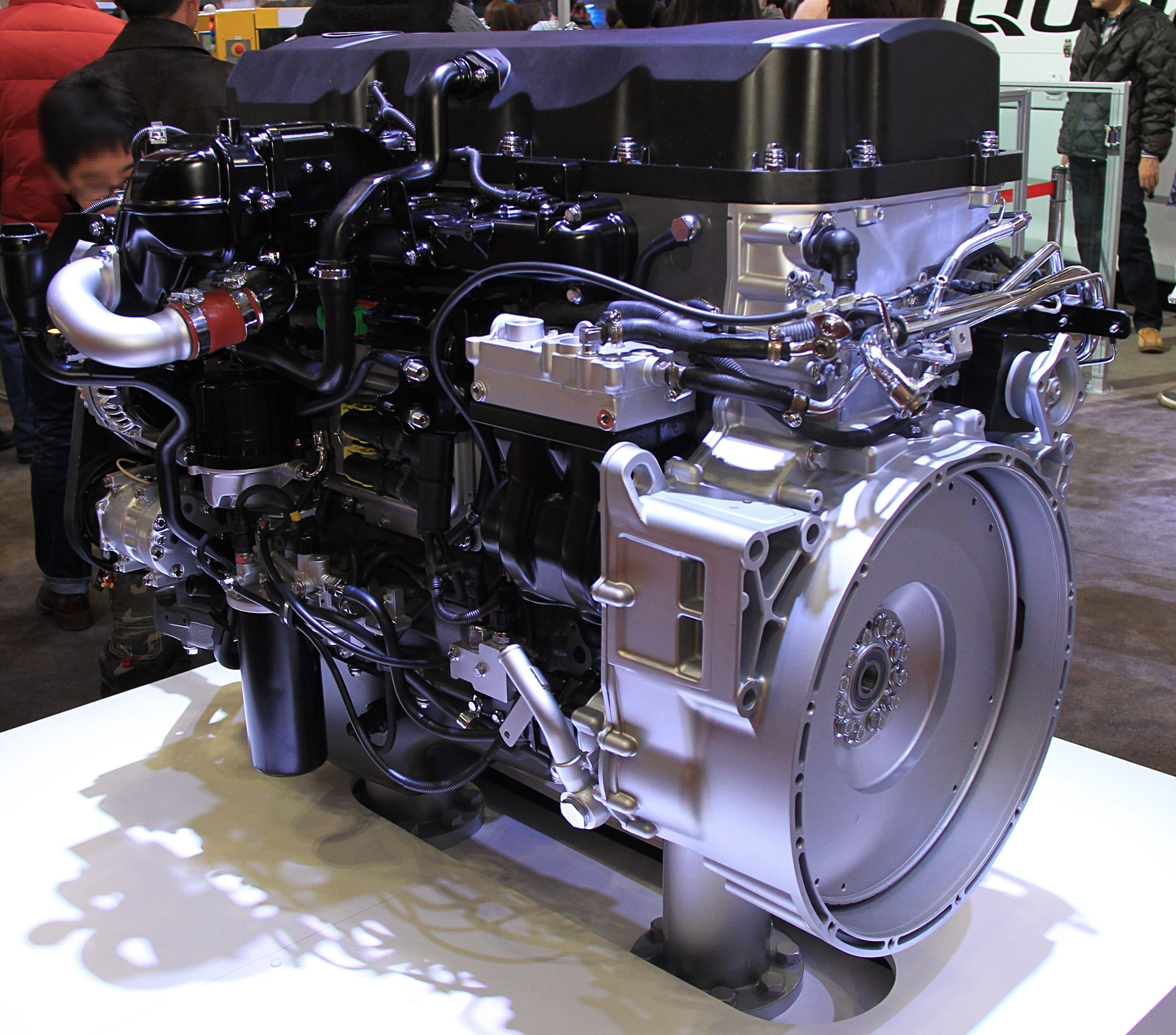 UD GH11